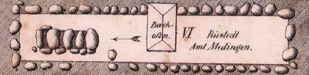 Megalithic tomb near Rieste, Sprockhoff-No. 743